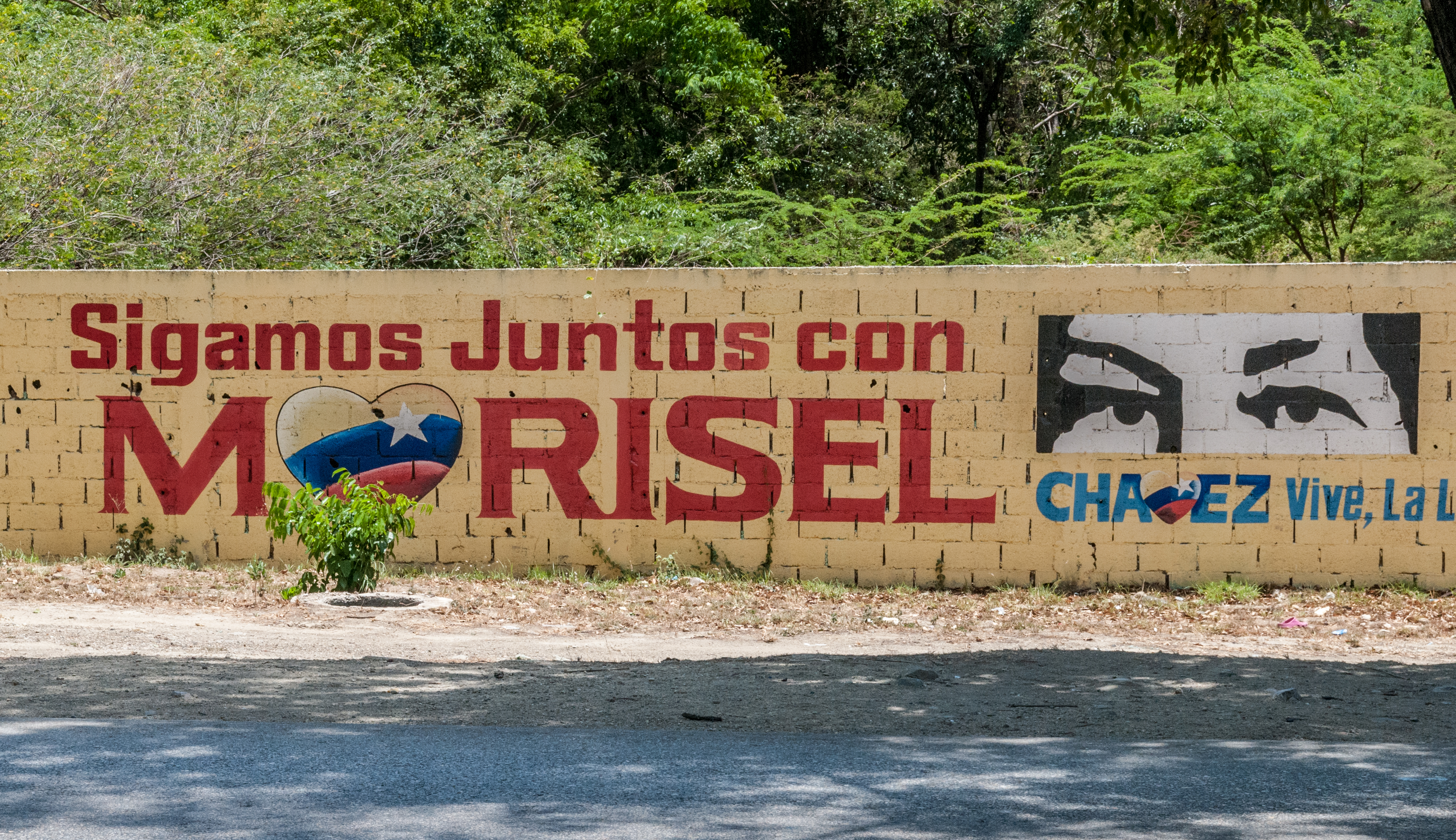 Advertising from the Mayor of San Juan